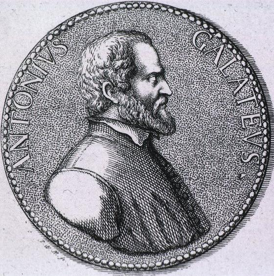 Bust of Antonio de Ferraris (c.1444 - 1517), bare-headed, bearded, wearing coat with falling collar, buttoned down the front, inscription, “ANTONIVS GALATEVS” Beaded border. 1 print : engraving